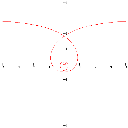 The Poinsot spiral r=csch(θ/3).